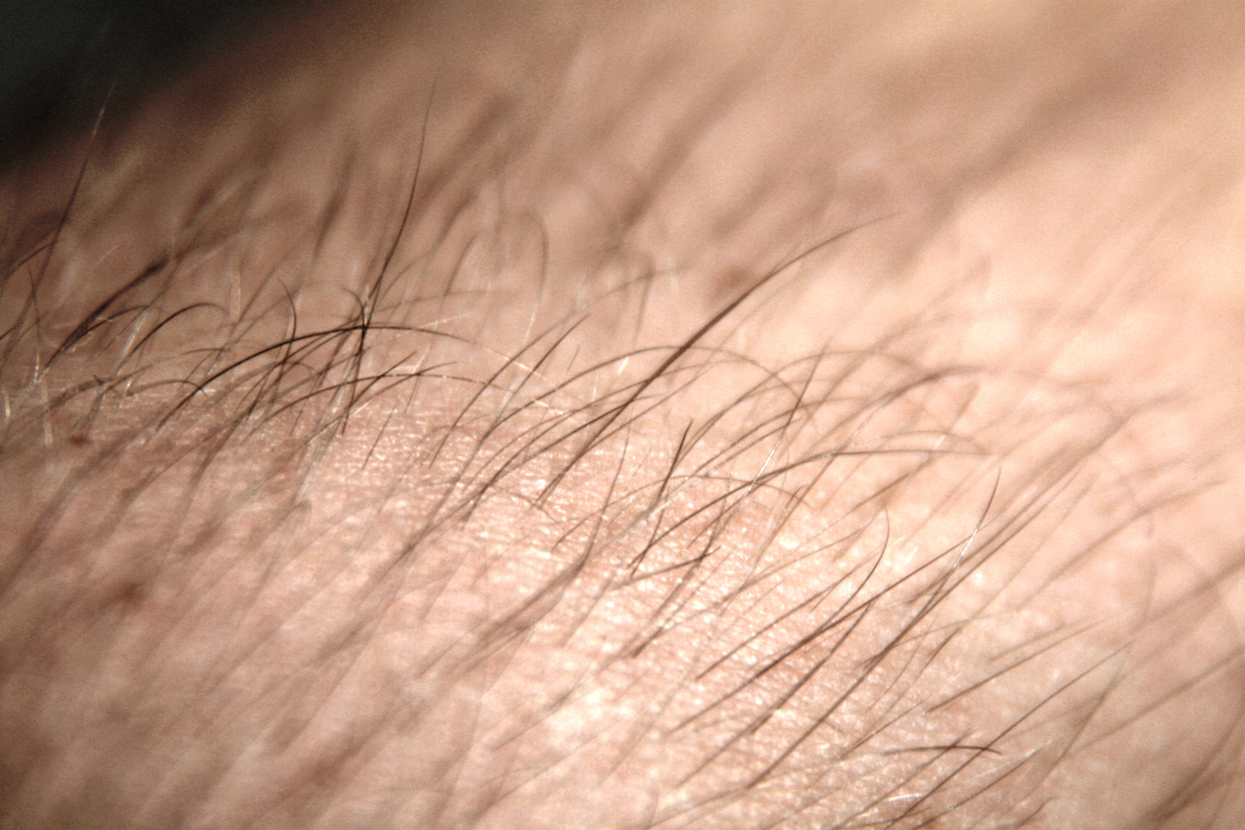 Arm hair on a male human.